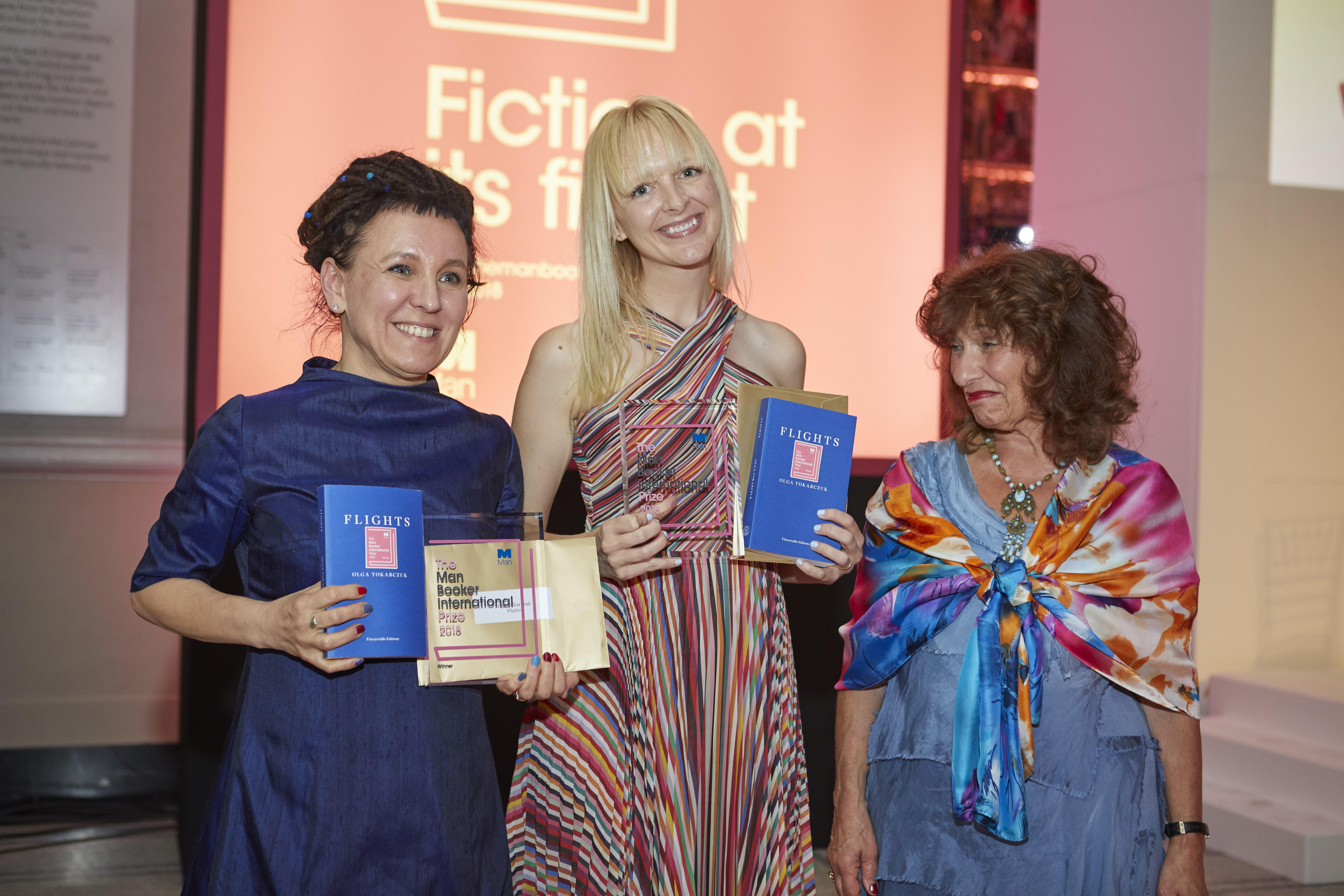 Jennifer Croft and Olga Tokarczuk with Lisa Appignanesi OBE, Chair of the judges for the 2018 Man Booker International Prize. Photo Credit: Janie Airey